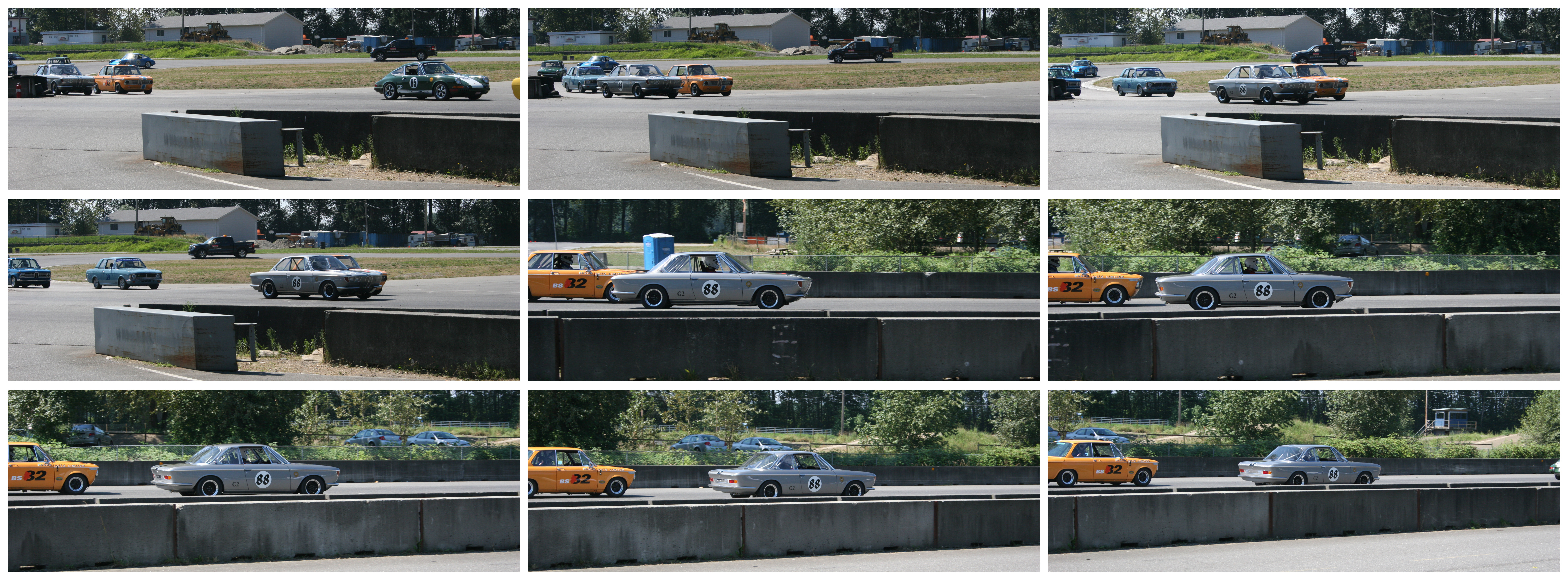 Picture of vintage cars participating in the Stella Alpina Rally